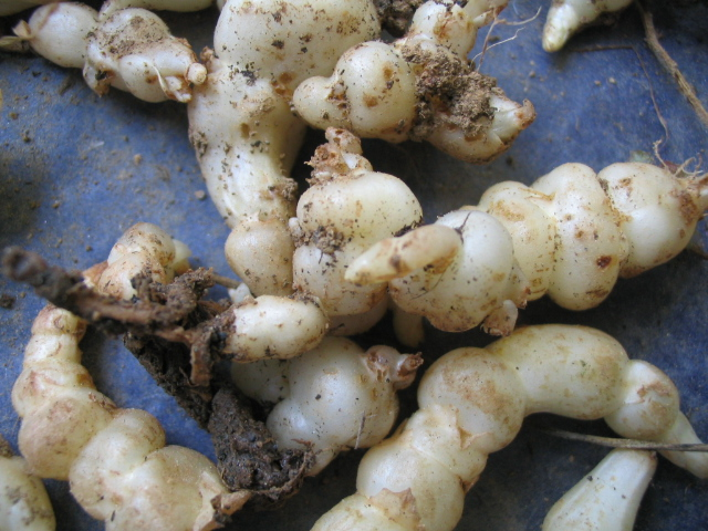 Il s'agit de crosnes du japon cultivés en bretagne. la photo a été prise par moi. That is Crosnes of Japan cultivated in france the photo has been taken by me.